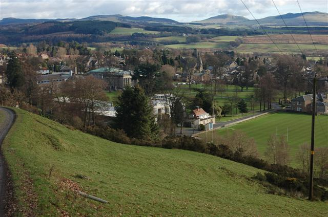 Dollar A view of Dollar taken from a path east of Dollarbank.